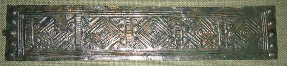 beltplate from a hallstatt-culture grave from Mörsingen